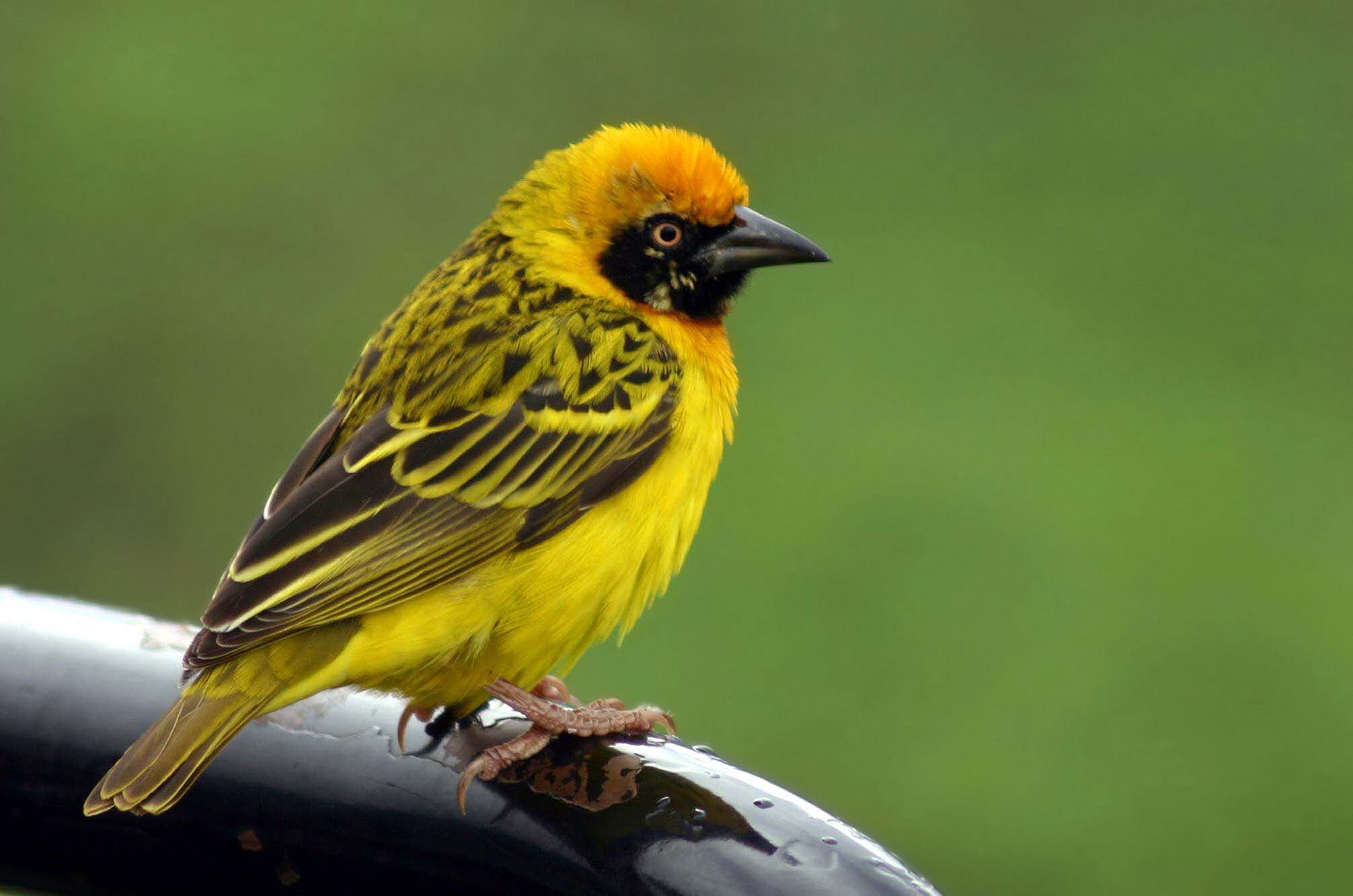 Speke's Weaver (Ploceus spekei) in the Serengeti, Tanzania